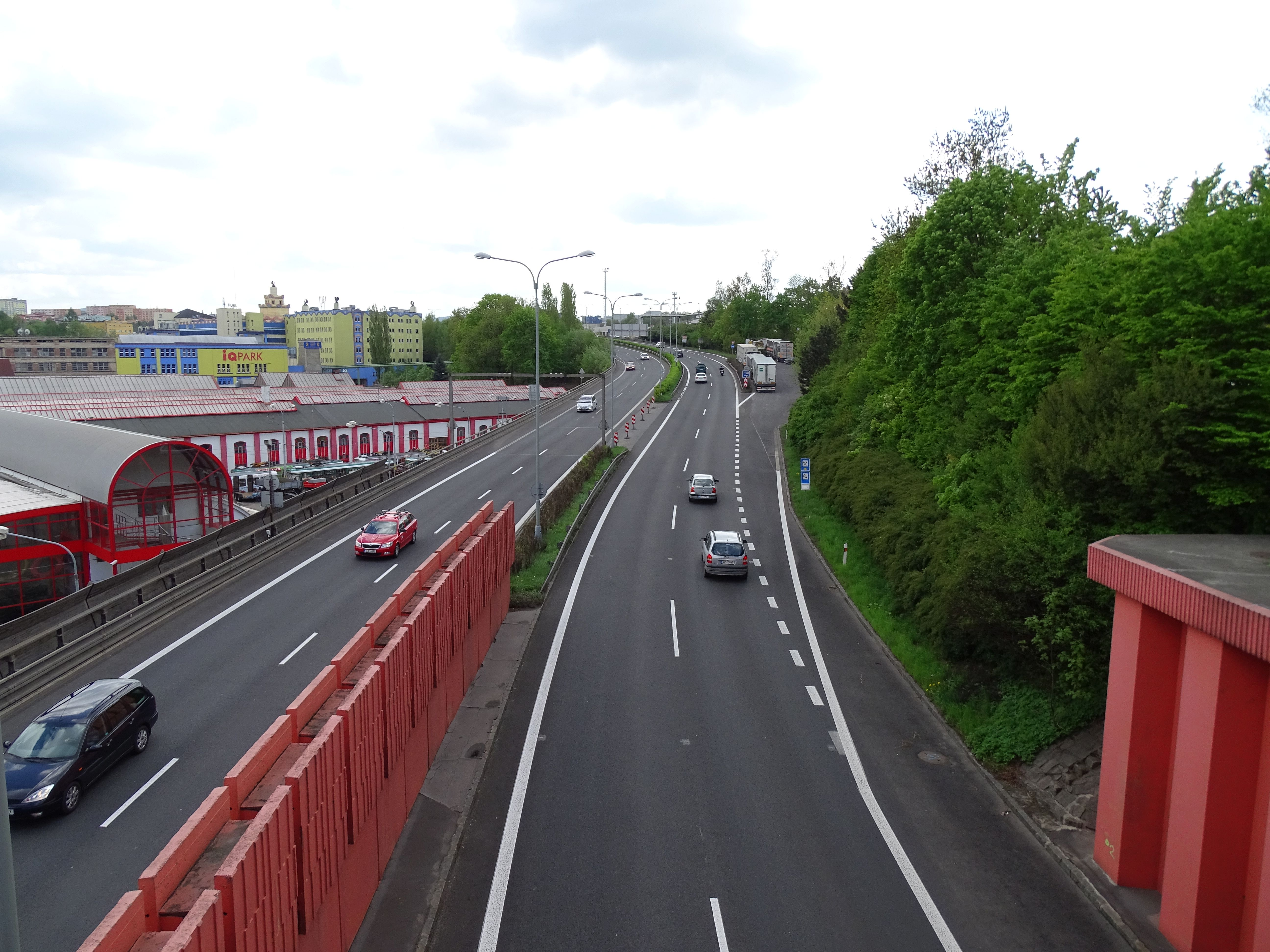 Liberec III-Jeřáb, Liberec District, Liberec Region, Czech Republic. Road R35.